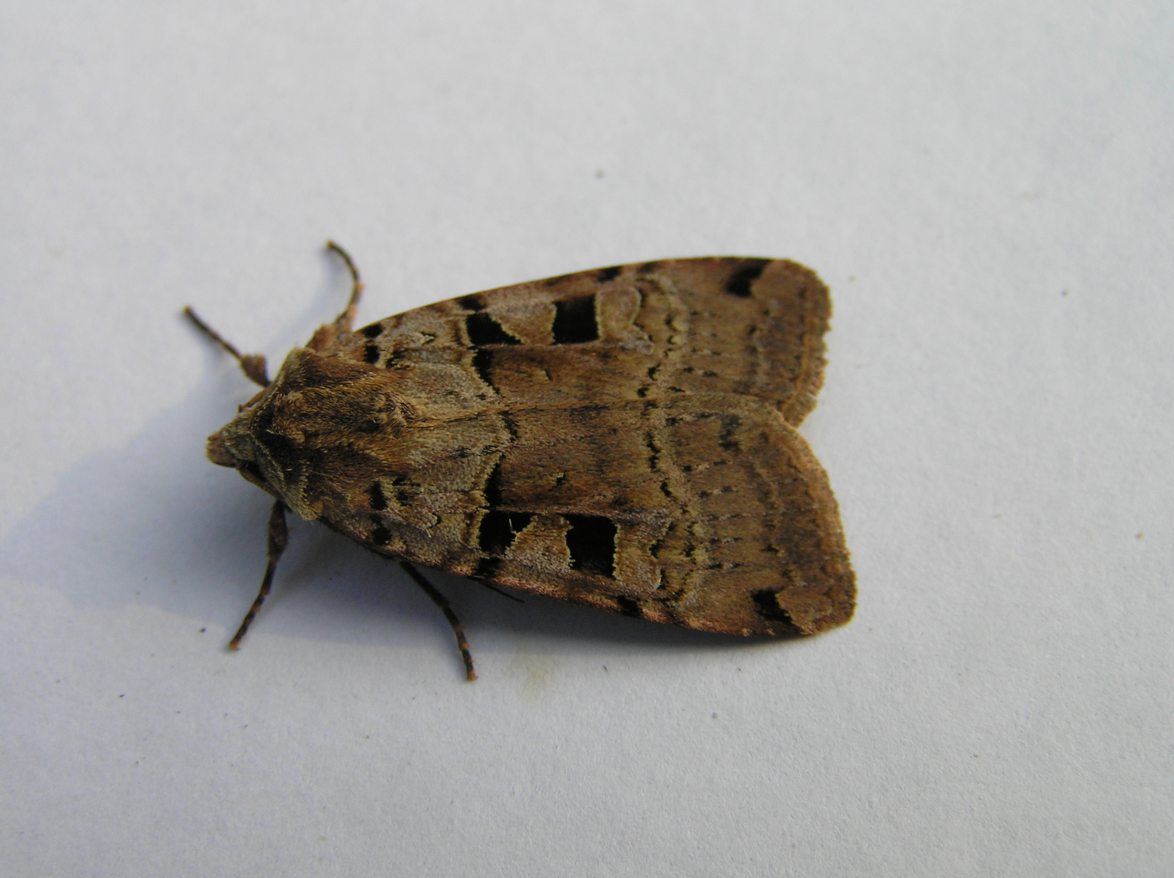 Xestia triangulum (Goes, the Netherlands)